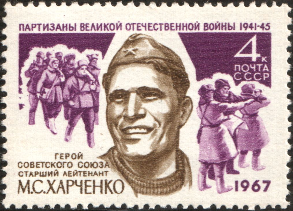 A USSR stamp, Military persons of the USSR